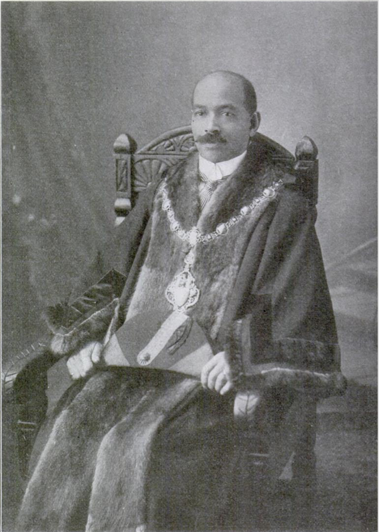 John R. Archer, Mayor of Battersea in his ceremonial robes, 1914